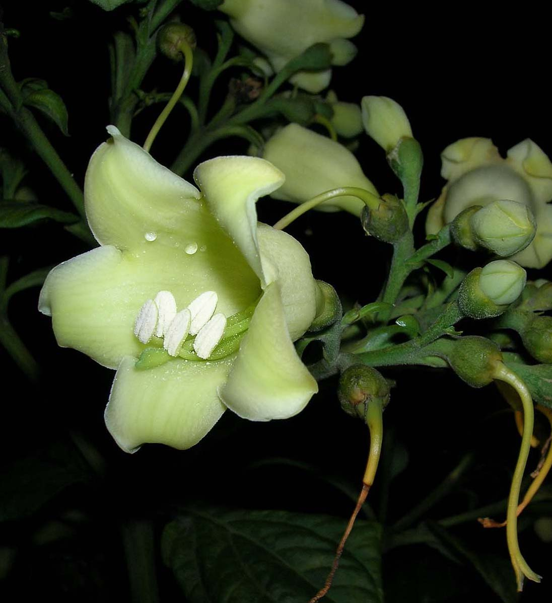 Macrocarpaea apparata, detail flower. Photo Jason R. Grant, southern Ecuador, 2006